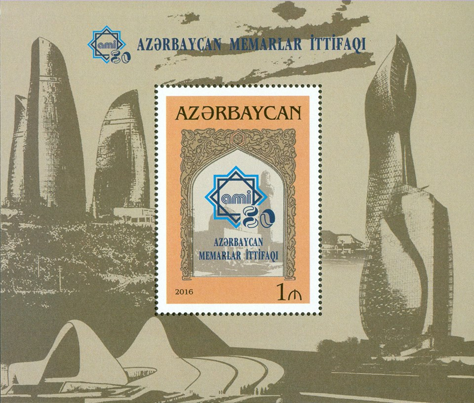 The 80th Anniversary of the Union of Architects of Azerbaijan. The souvenir sheet: N 1259 - 1 manat. There are pictured the special logo devoted to the 80th anniversary of the Union of architects of Azerbaijan on the stamps.